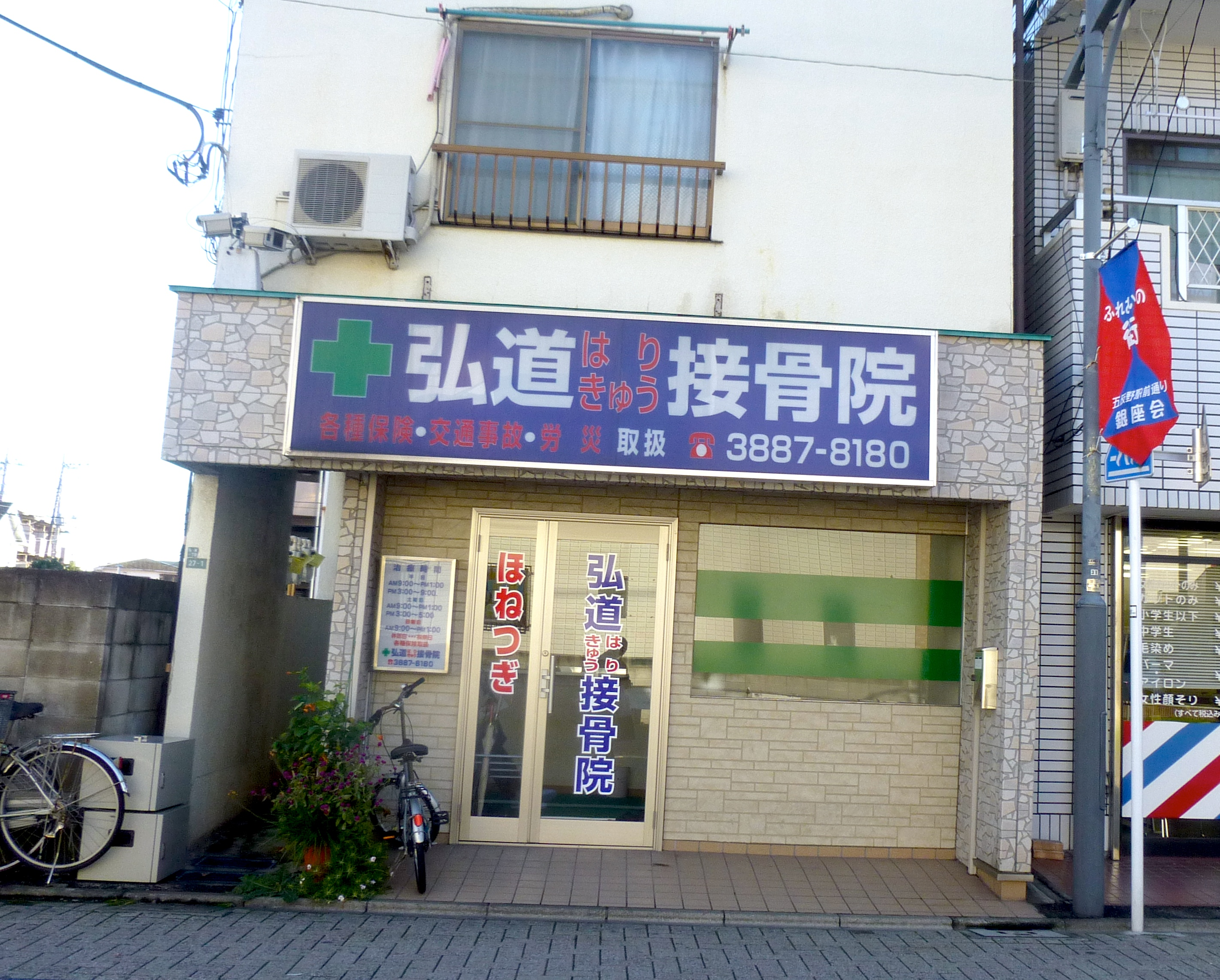 Japanese bone-setting shop (Sekkotsu)